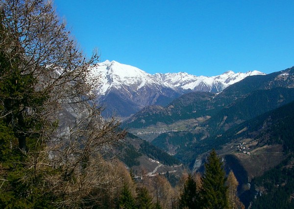 Valle di Scalve picture taken by user Idéfix April, 2, 2006